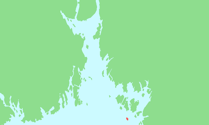 Locator map of Tisler, Østfold, Norway